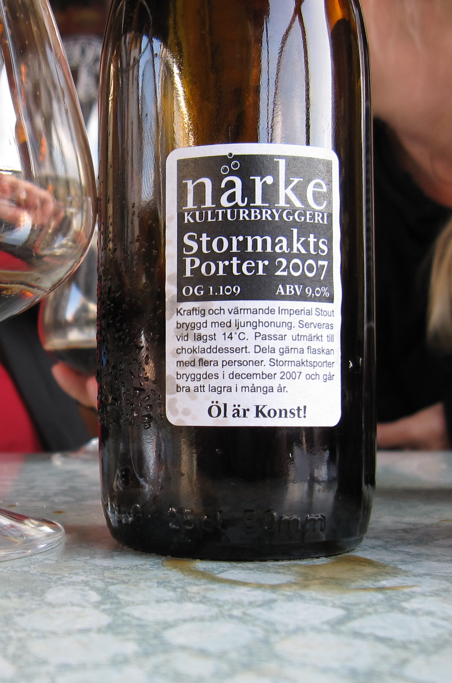 Stormaktsporter 2007, a beer from Närke brewery, Sweden